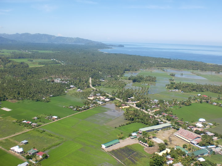 The Notre Dame of Salaman College can be seen in the image. Vast rice-fields and coconut trees. National highway going to Kalamansig.